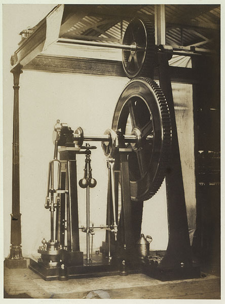 A photograph of a steam engine, manufactured by B. Hick and Son of Bolton, Lancashire and exhibited at the Great Exhibition, taken by Claude-Marie Ferrier (1811-1889) in 1851. The Great Exhibition of the Works of Industry of All Nations, held 1851 in the Crystal Palace built in London's Hyde Park, was the first industrial exhibition. Over 100,000 exhibits were shown from around the world. This photograph is an illustration from 'Reports by the Juries', a four-volume work on the contents of the Great Exhibition, illustrated with 155 photographs by Claude-Marie Ferrier #1811-1889# and Hugh Owen #1804-1881#, published in 1852# Only 140 presentation sets of this work were produced, to be given to notables of those countries which participated in the exhibition as a record of the great event#